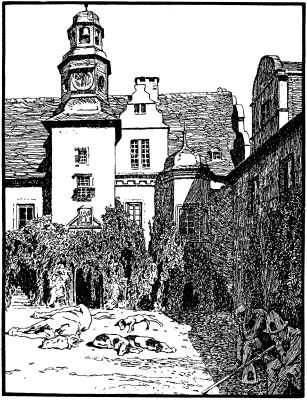 Illustration by Otto Ubbelohde to the fairy tale Sleeping Beauty.